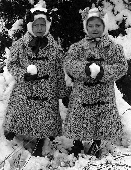 Ready for a snowball fight, Nebraska, c. 1910